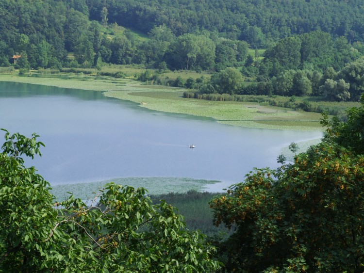 Lago di Alserio seen from Carcano Picture taken by user Idéfix , august 23, 2006